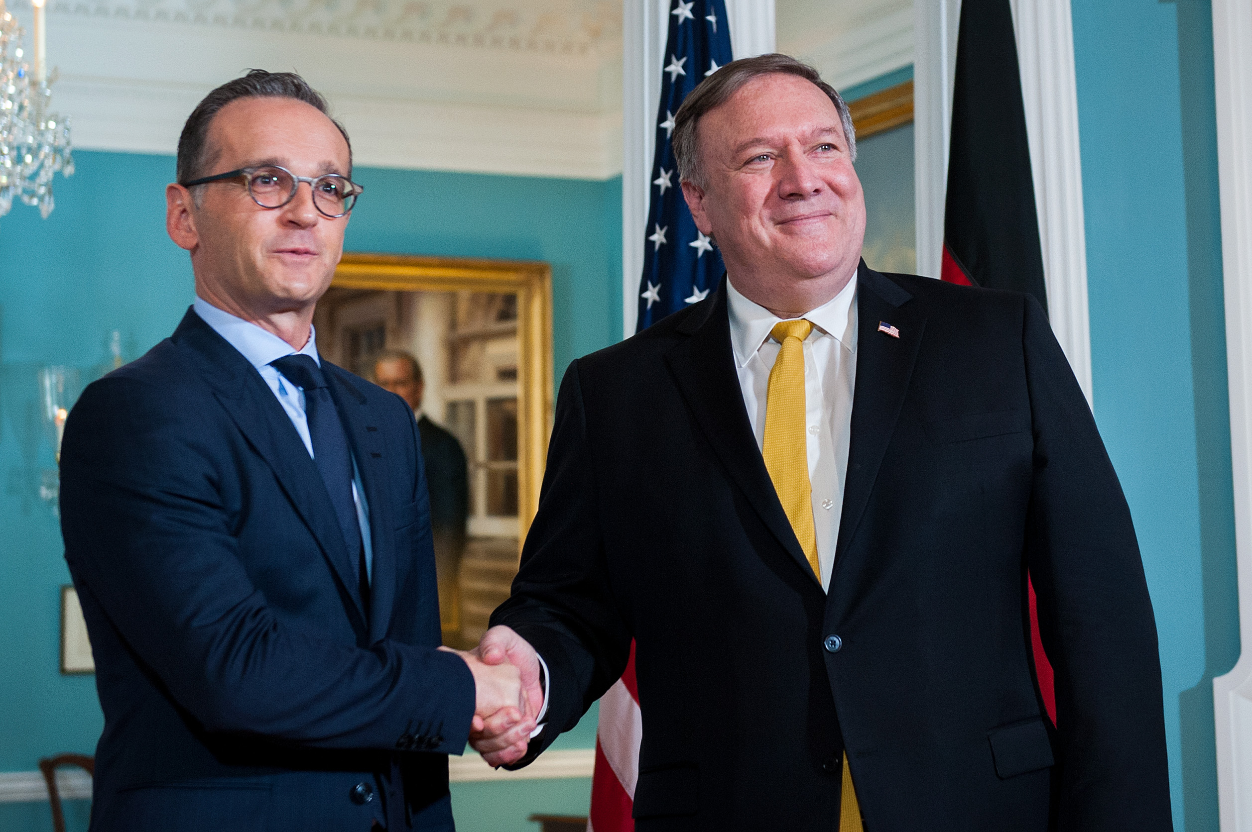 Secretary Pompeo meets with German Foreign Minister Heiko Maas, at the Department of State, October 3, 2018. [State Department Photo / Public Domain]